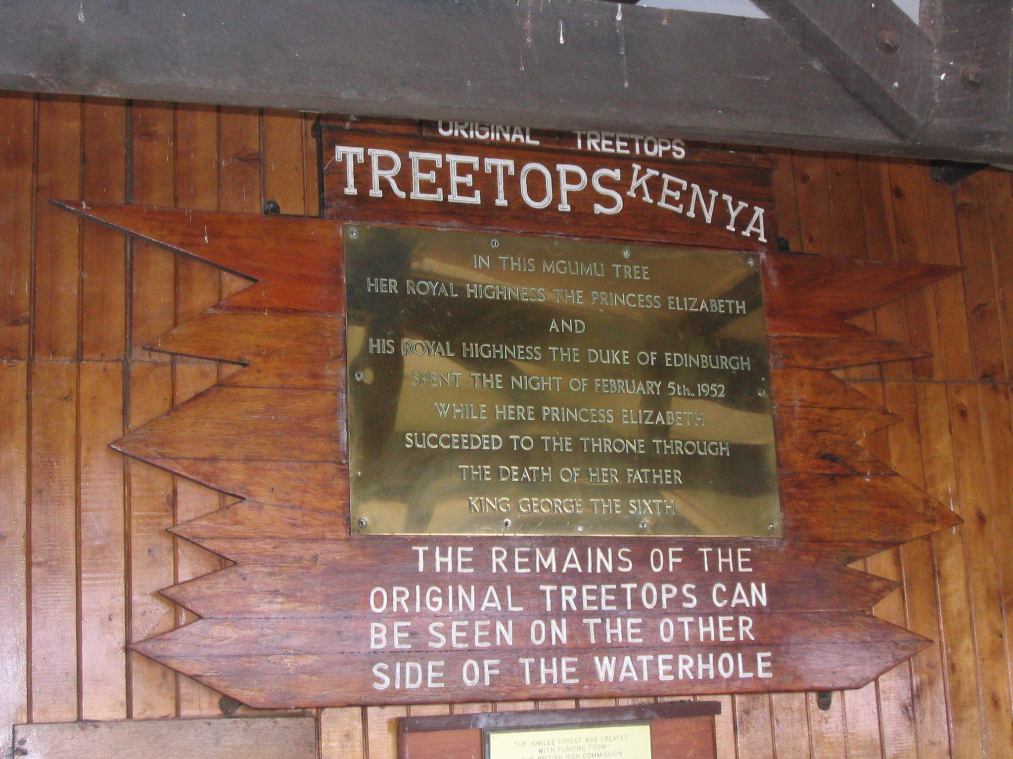 I Michael Rigg created this image whilst visiting Hotel Treetops Hotel in 2005.